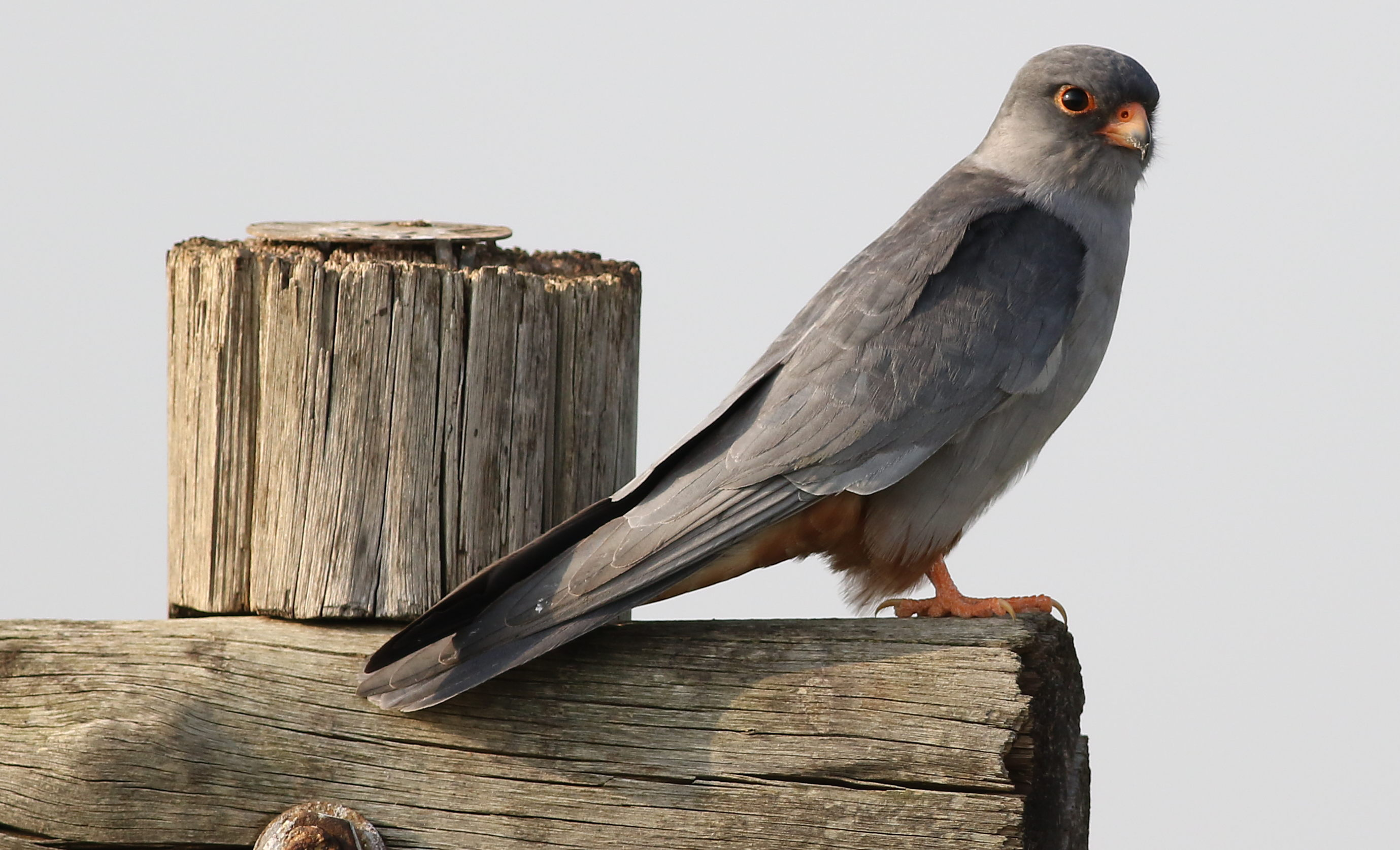 Amur falcon, Falco amurensis, male at Eendracht Road, Suikerbosrand, Gauteng, South Africa